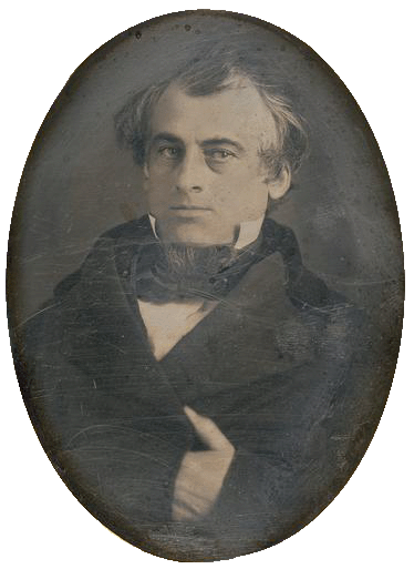 William A. Barstow (1813 - 1865), third governor of Wisconsin